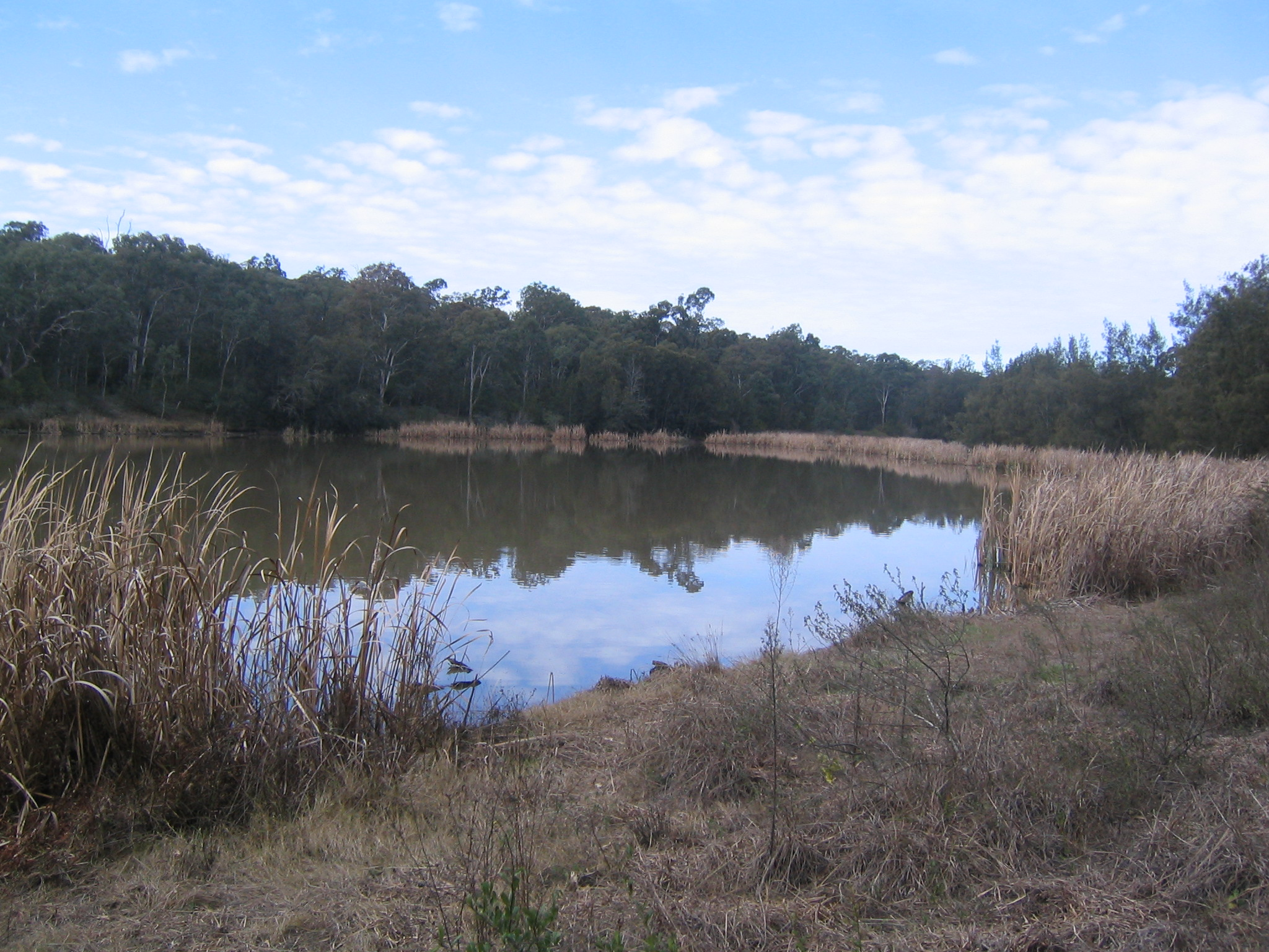 North Swamp in Longneck Lagoon. Scheyville National Park, northwest of Sydney, Australia.